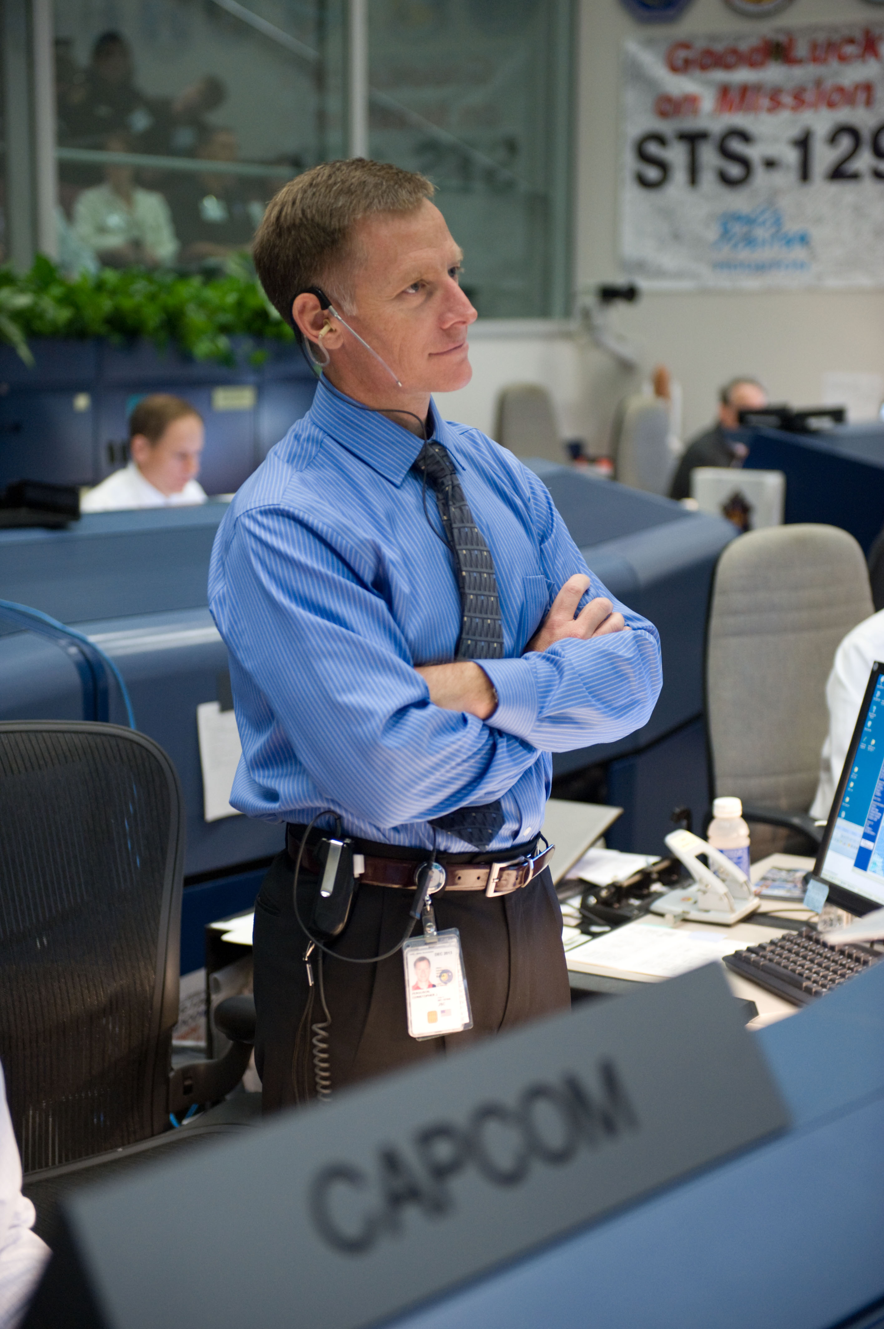 Astronaut Chris Ferguson, STS-129 spacecraft communicator (CAPCOM), watches the big screens from his console in the space shuttle flight control room in the Mission Control Center at NASA's Johnson Space Center during launch countdown activities a few hundred miles away in Florida, site of Space Shuttle Atlantis' STS-129 launch. Liftoff was on time at 2:28 p.m. (EST) on Nov. 16, 2009 from launch pad 39A at NASA's Kennedy Space Center.